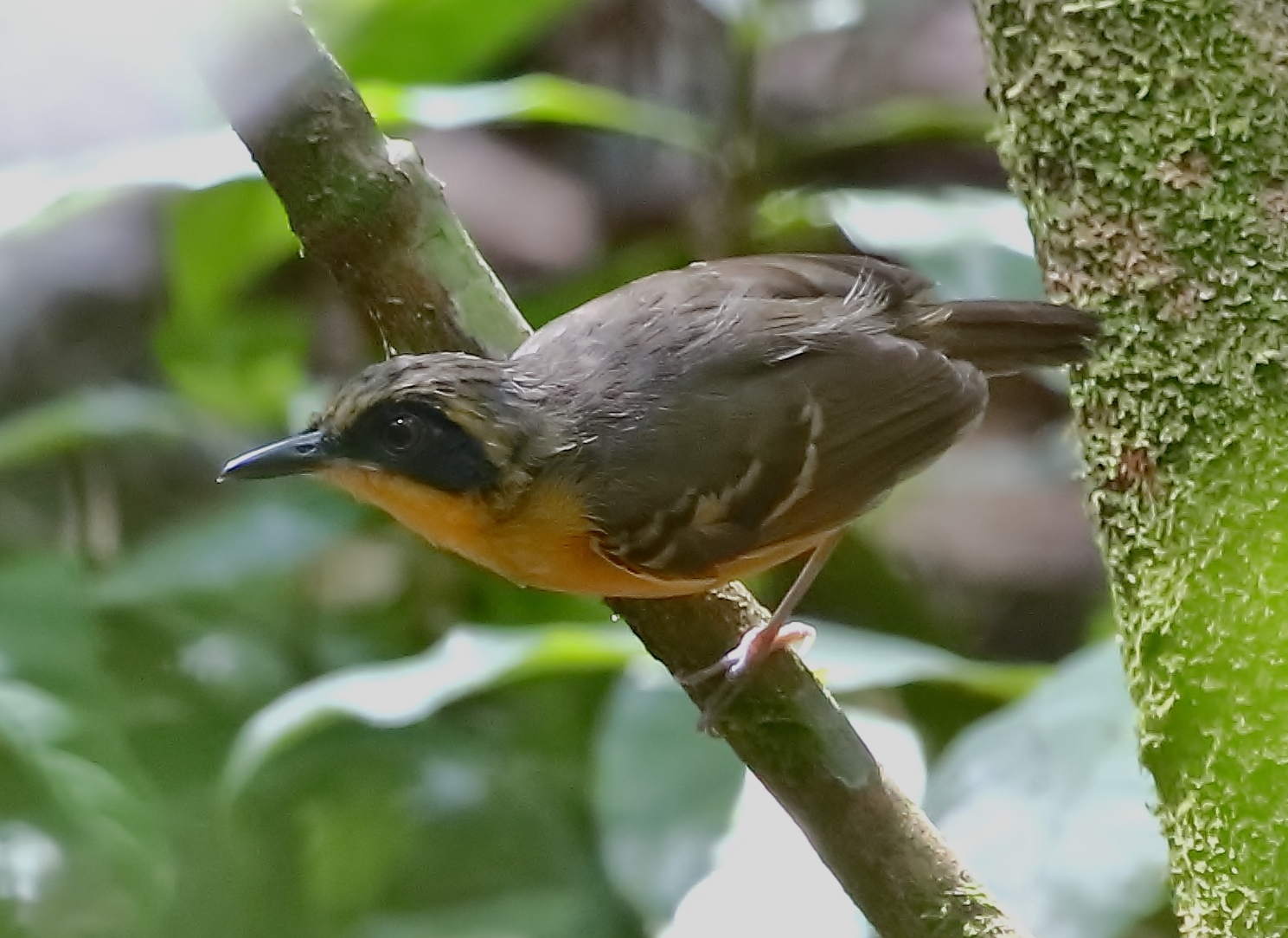 Black-faced antbird (female) at Carajás National Forest, Pará, Brazil